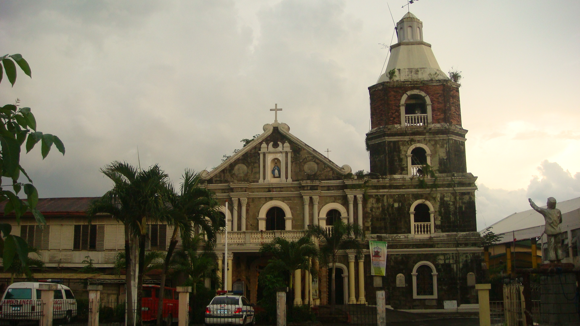 "Mahal na Poon ng Krus sa Wawa" Diocesan Shrine, Bocaue, Bulacan